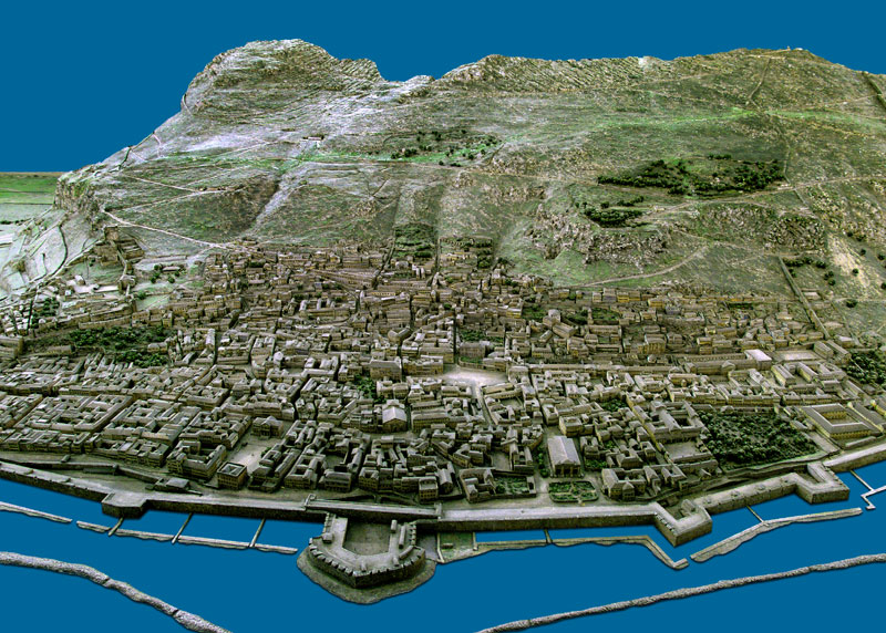 The coastal defences are comprehensive with the large Kings Bastion at centre and South Bastion at the lower right in the photograph. City Hall, House of Assembly and the piazza are close to Kings Bastion and still exist today as does the Governors residence (The Convent) situated behind Wellington Front with its distinctive right and left bastions. Views from a model of Gibraltar in Gibraltar Museum. The model is 8 meter's long at a scale of 1/600 or 1inch = 50ft which represents the almost 3 mile length of Gibraltar It was completed in 1865 from a survey by Lient. Charles Waren R.E. under the direction of Major General Frome R.E. it was coloured after nature by Captain B.A. Branfill of 86 Regiment 1868. These pictures are from and are generously given by the site and its auithor Jim Crone